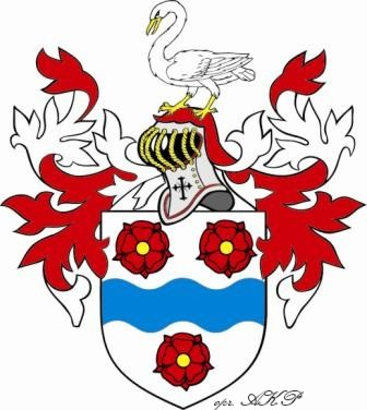 Coat of arms of the von Wrochem family.